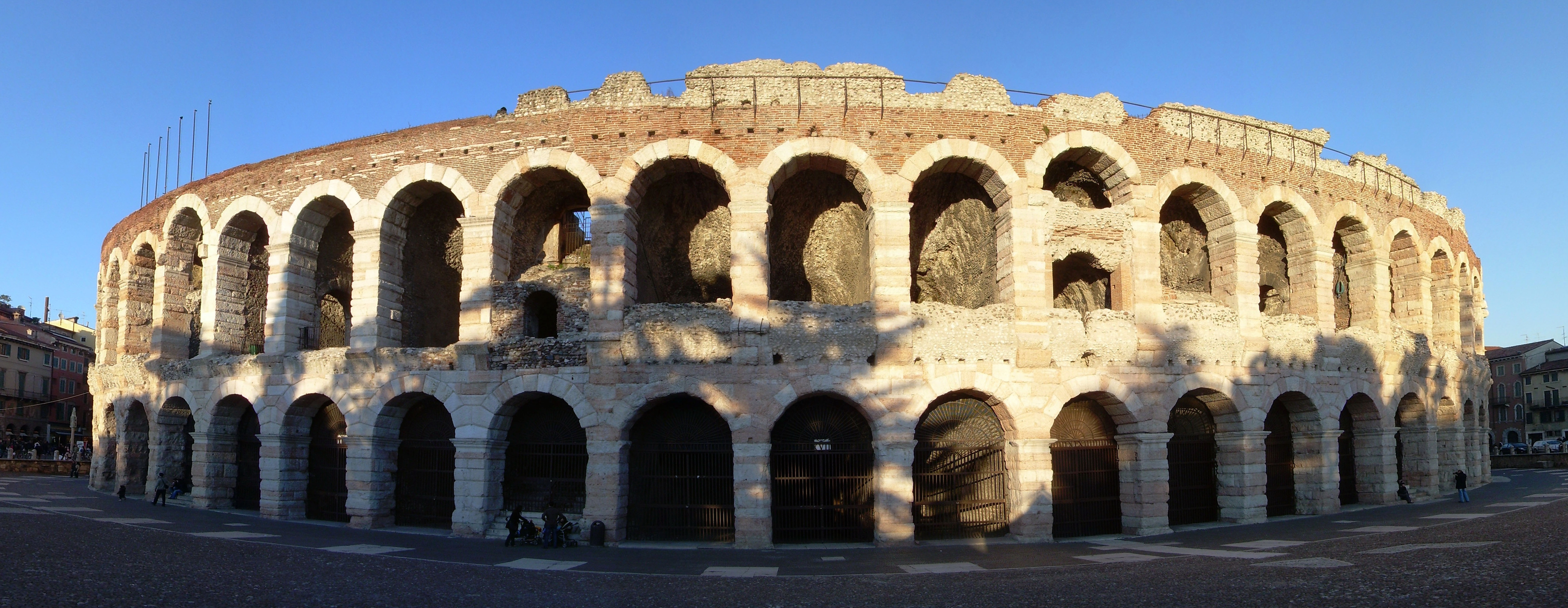 Verona Arena. View from Piazza Bra.